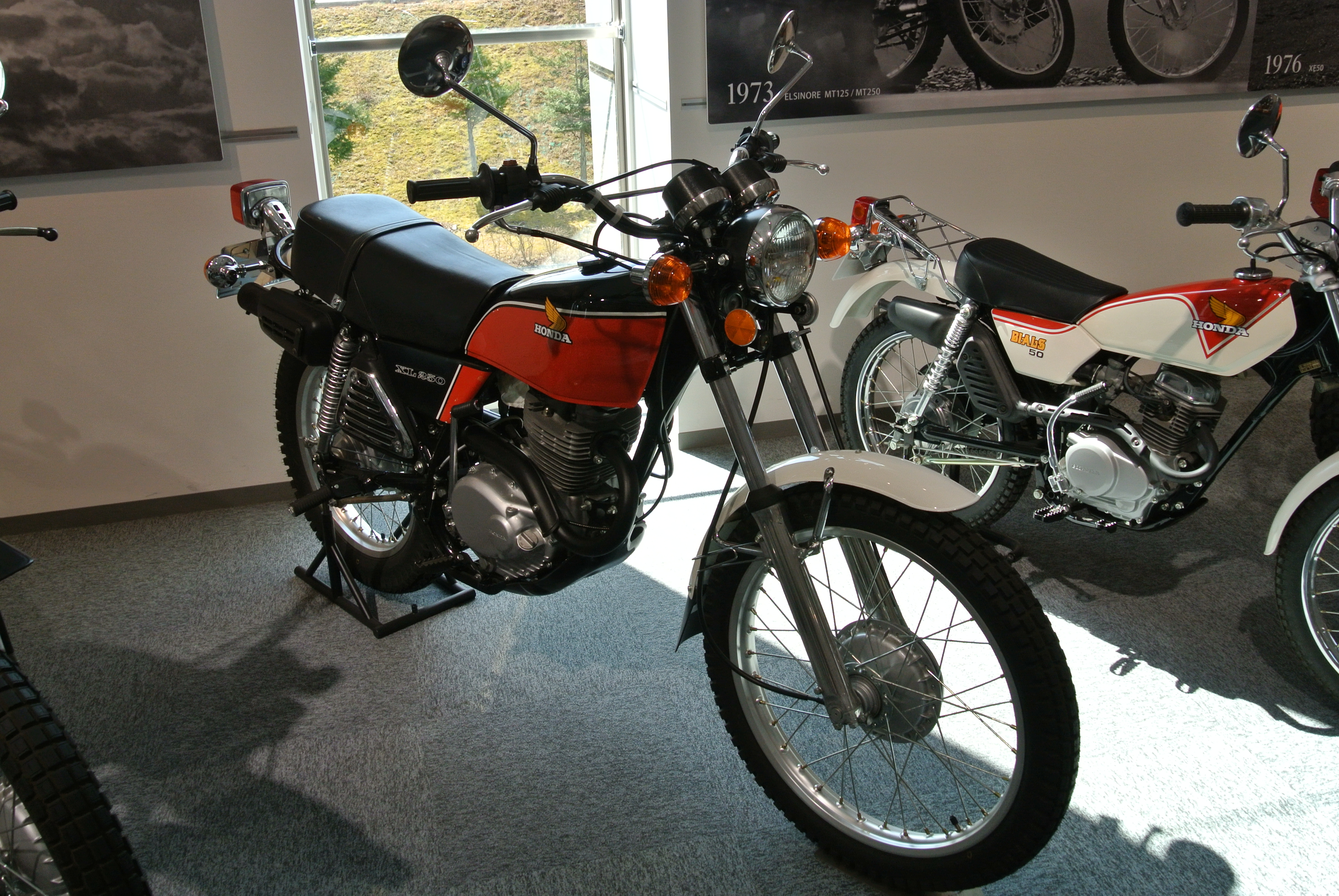 Honda XL250 in the Honda Collection Hall.